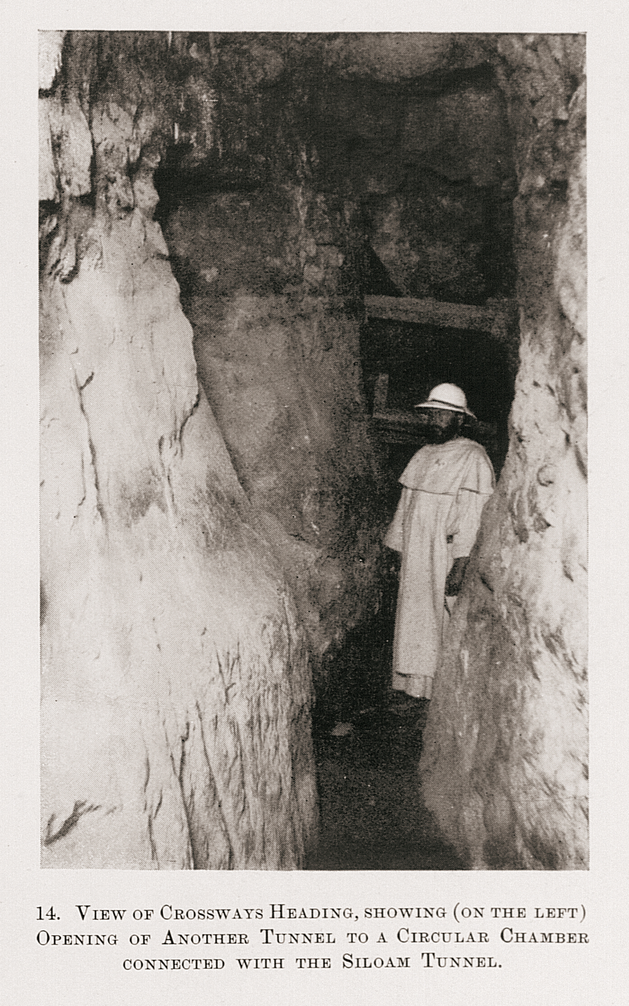 Photograph of Parker mission.